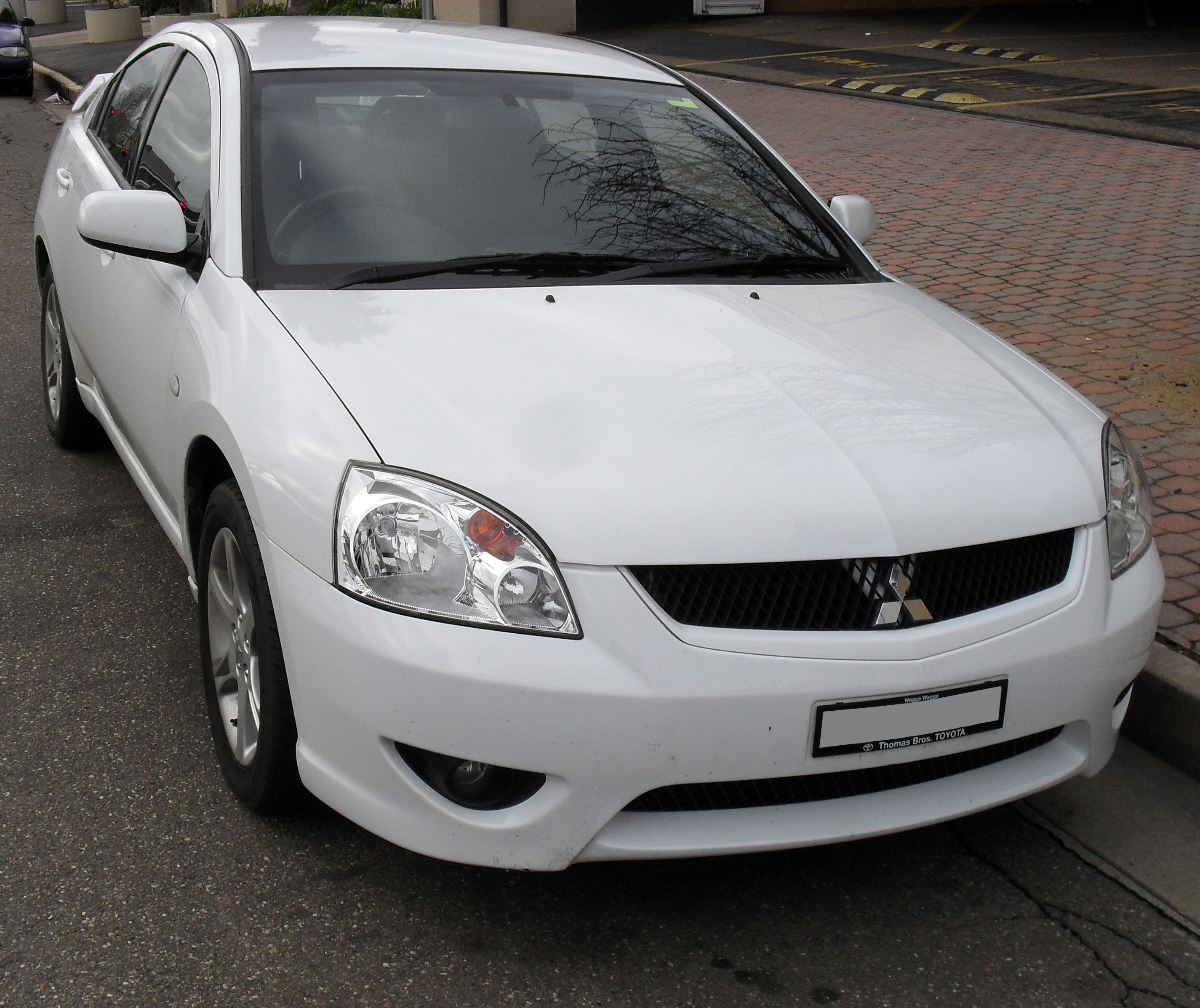 2006-2007 Mitsubishi 380 (DB II) SX sedan photographed in New South Wales, Australia.